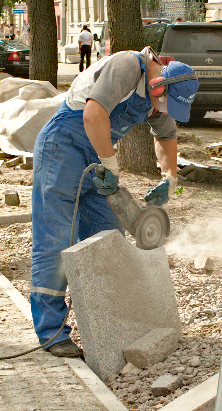 Cutting profile in stone with Angle grinder